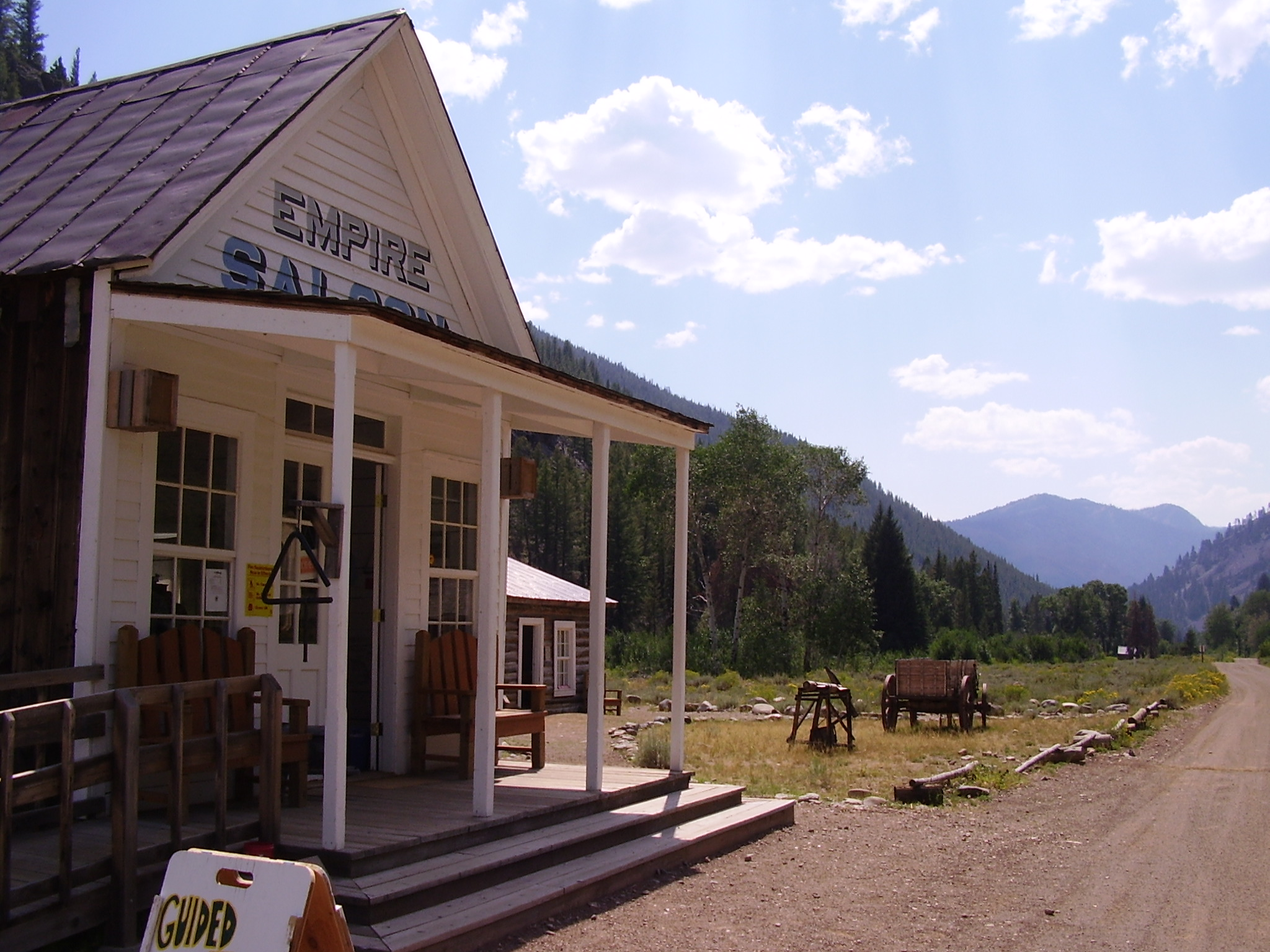 Empire Saloon, General store for Custer Ghost Town